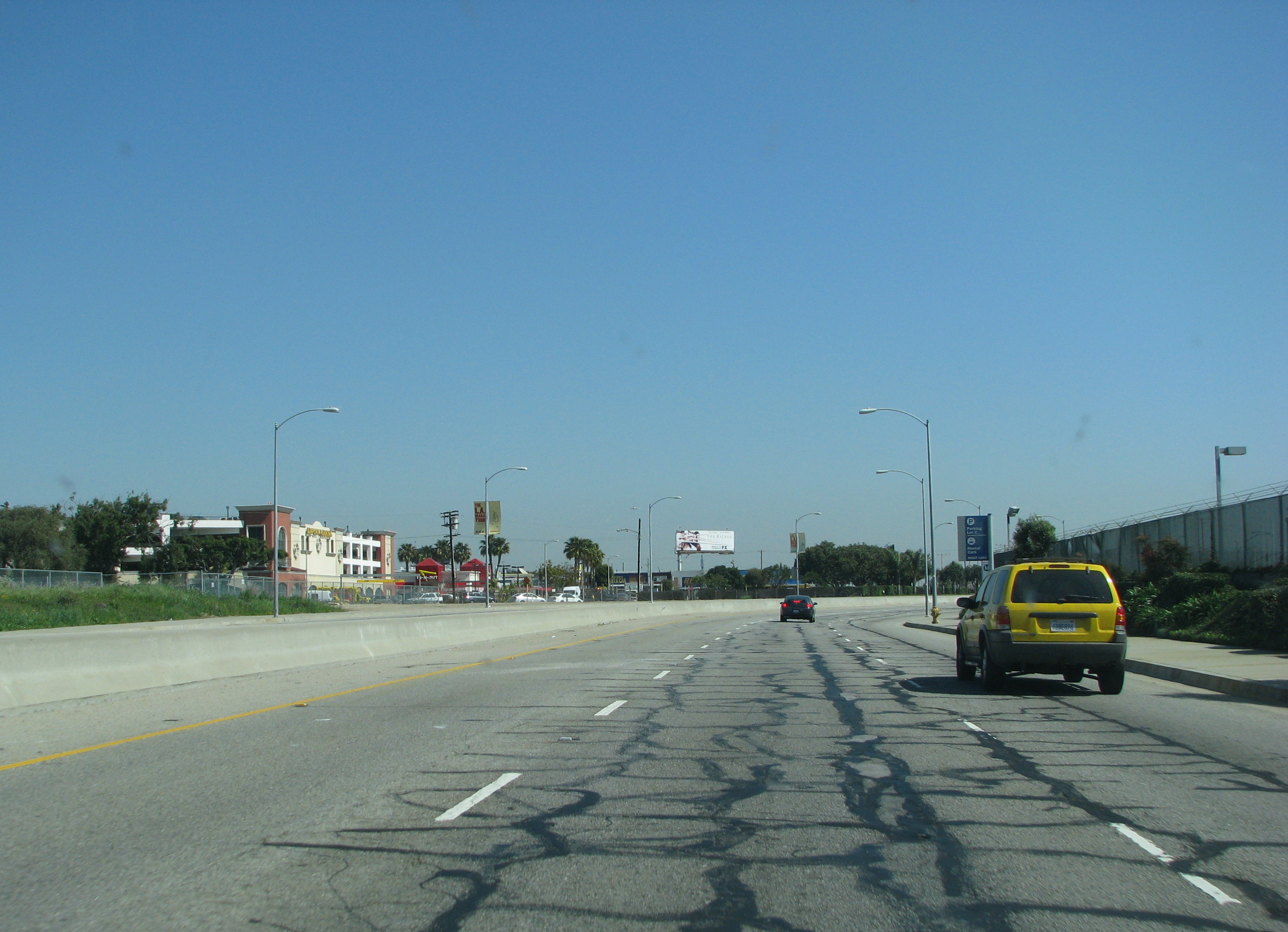 Southbound Ca-1 between Santa Monica and LAX (Los Angeles Int'l Airport).